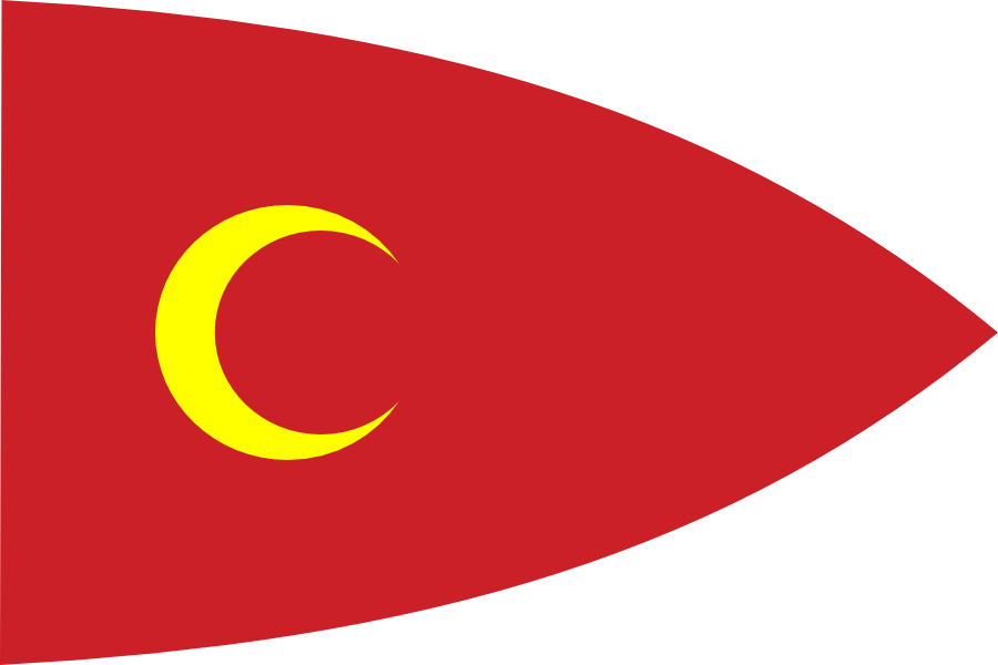 One of user made Ottoman flags